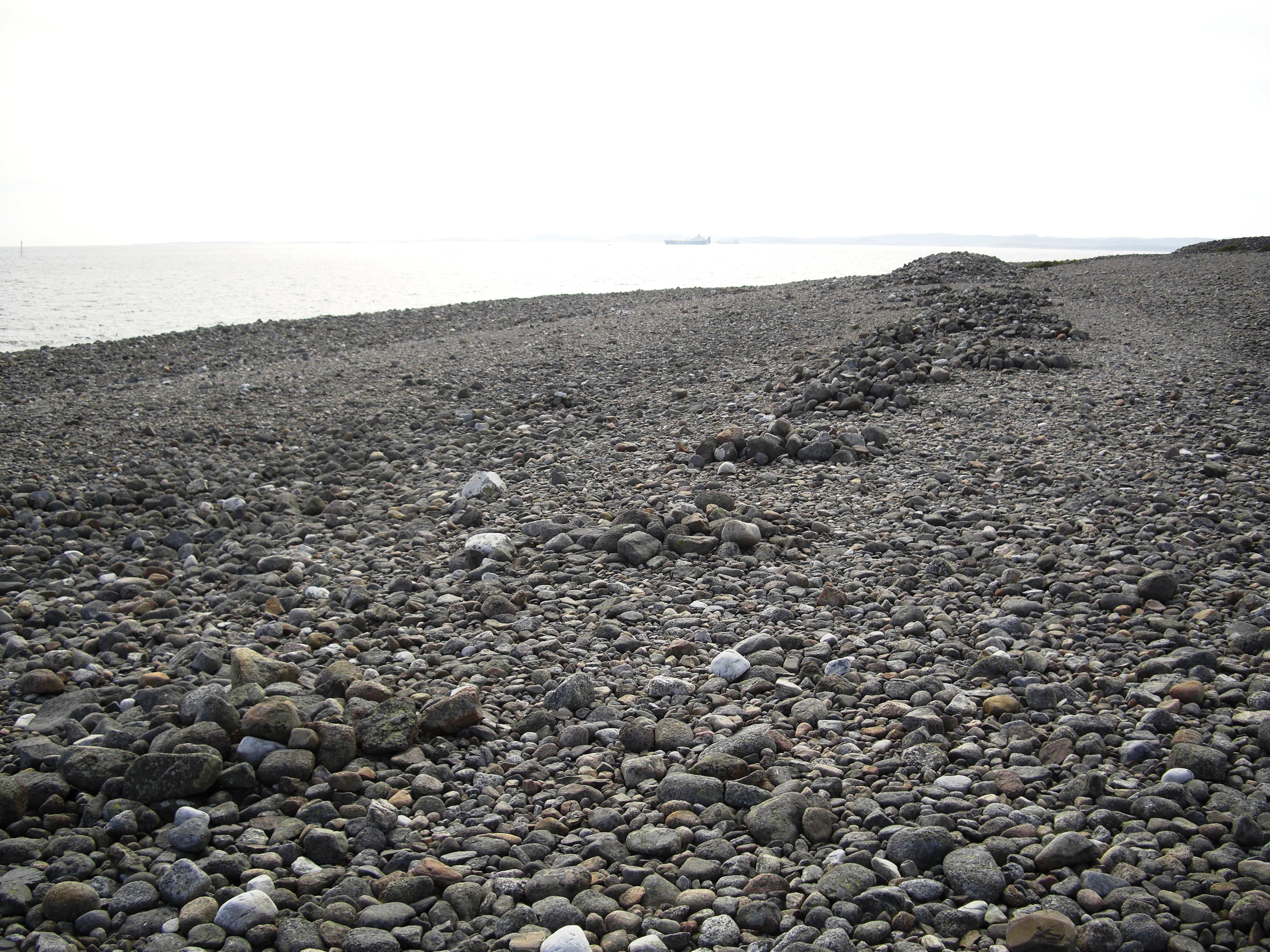 Row of burial cairns at Mølen